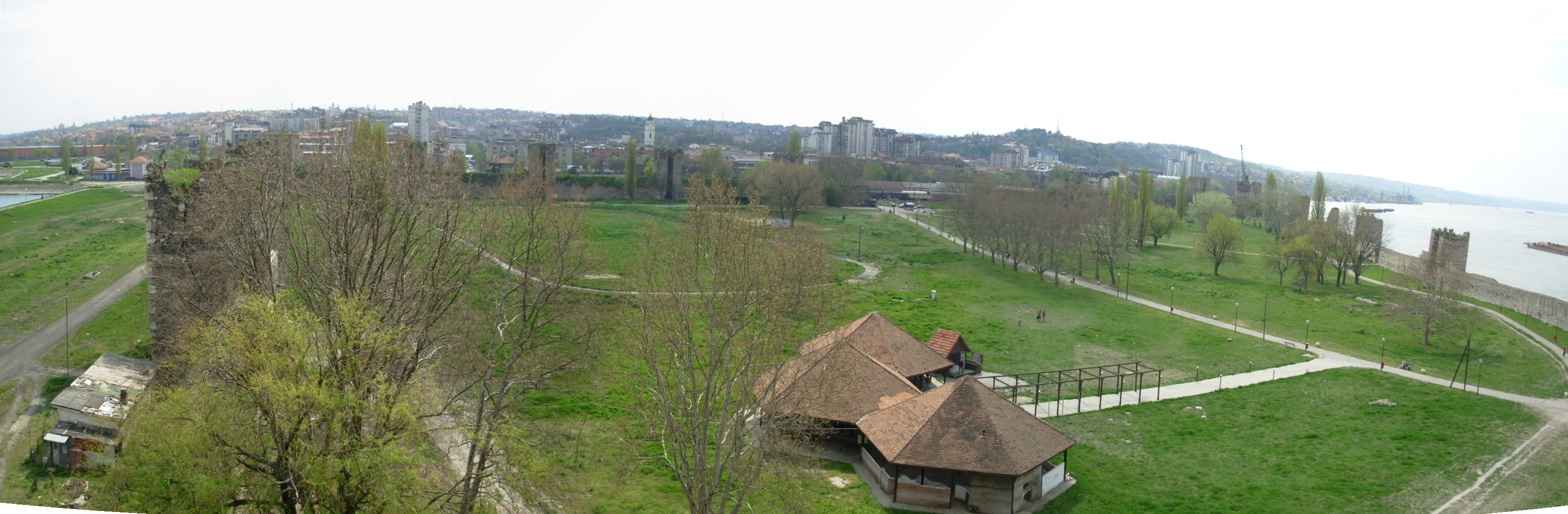 Panoramic photo of big town of Smederevo Fortress. Taken from the top of the tower of the big town.